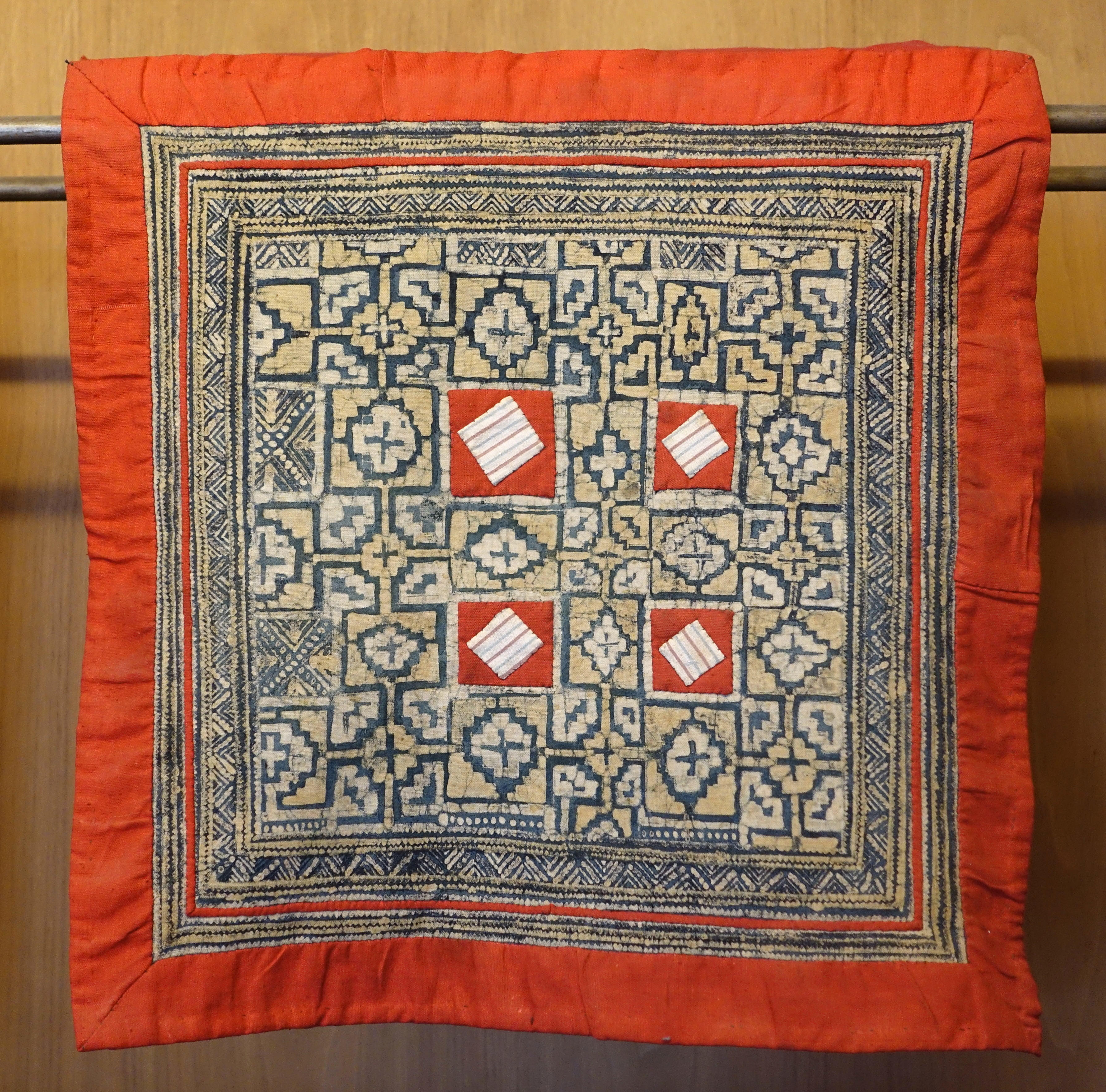 Exhibit in the Vietnam Museum of Ethnology - Hanoi, Vietnam.